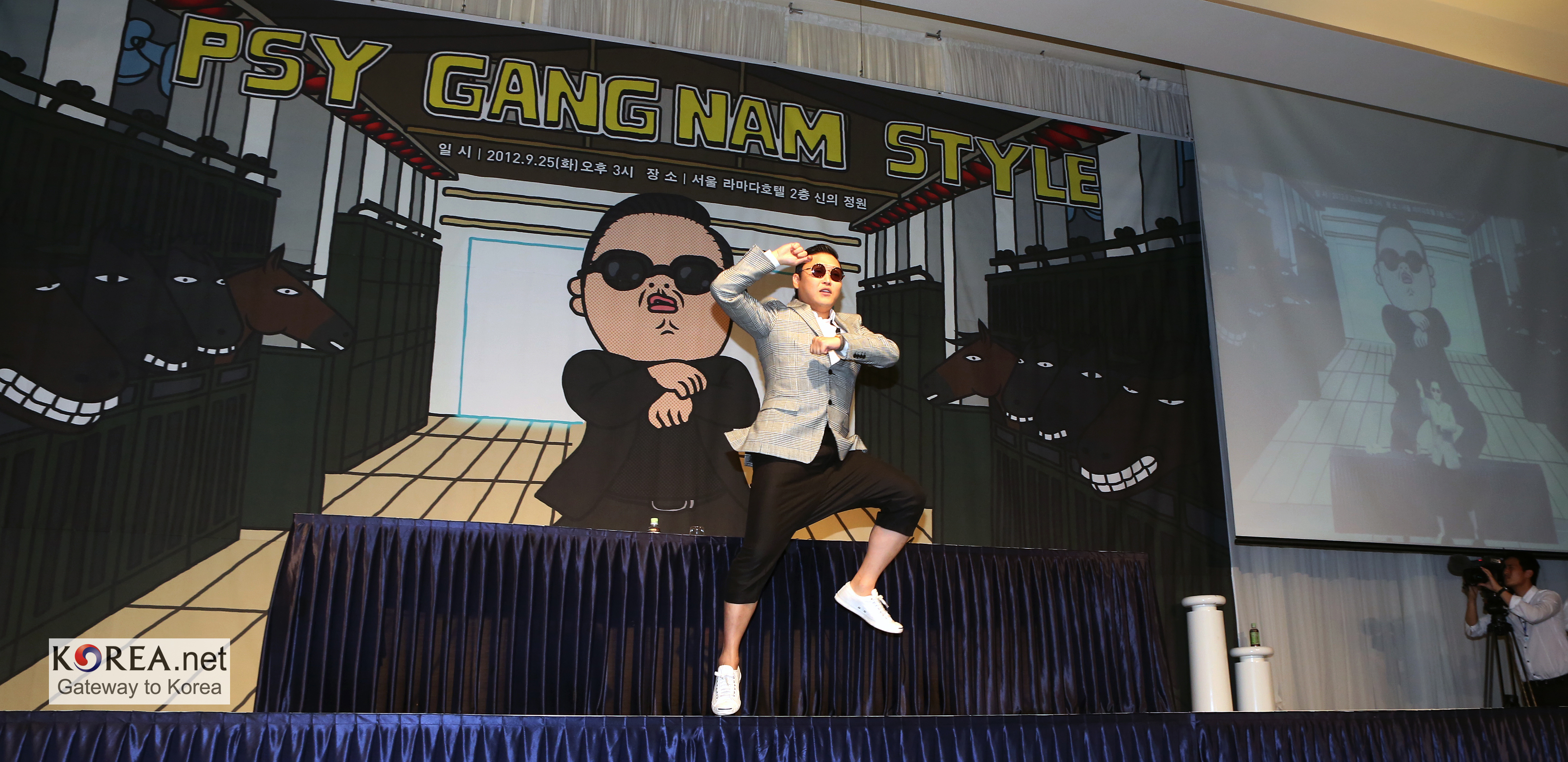 PSY Press Conference 2012.09.25. Seoul Ministry of Culture, Sports and Tourism Korean Culture and Information Service Jeon Han 싸이 귀국 기자회견 문화체육관광부 해외문화홍보원 전한